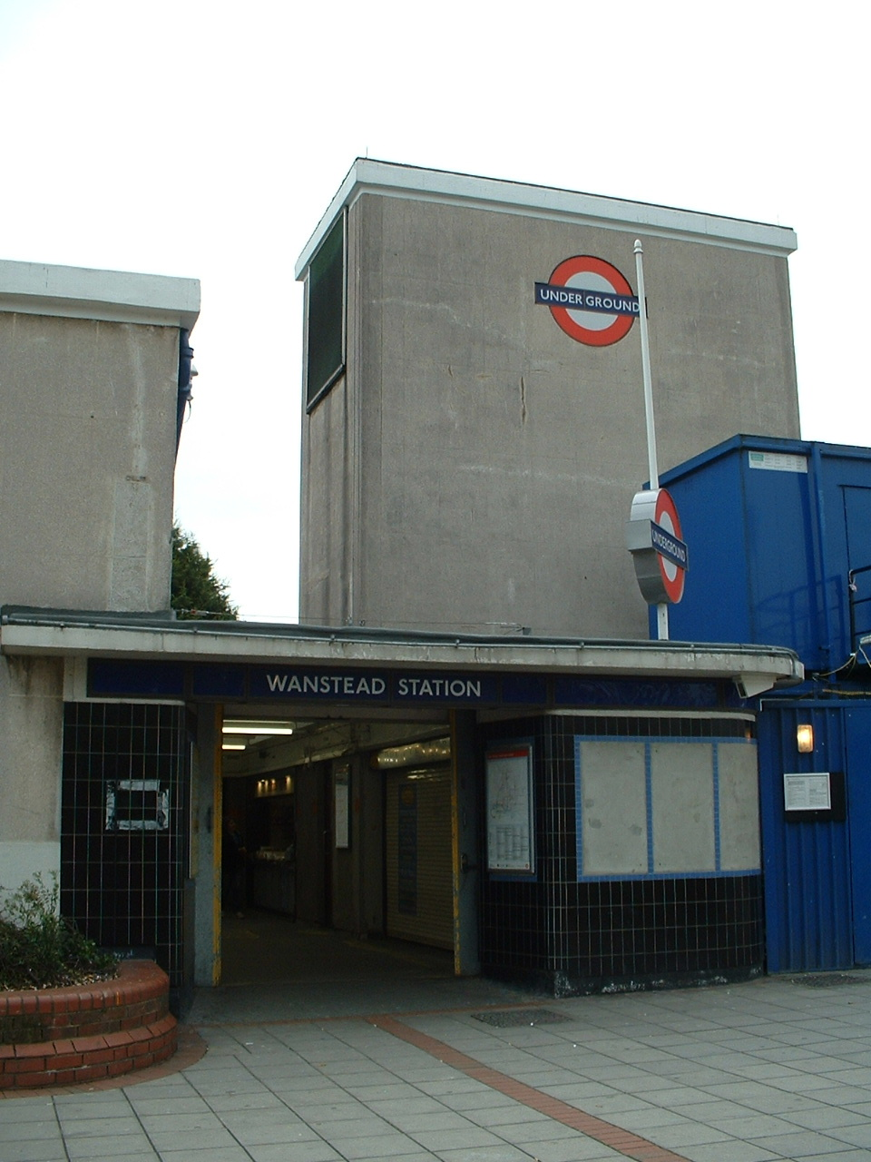 Wanstead tube station north entrance, to the south of the former A12. Sunil060902, 24th November 2007.